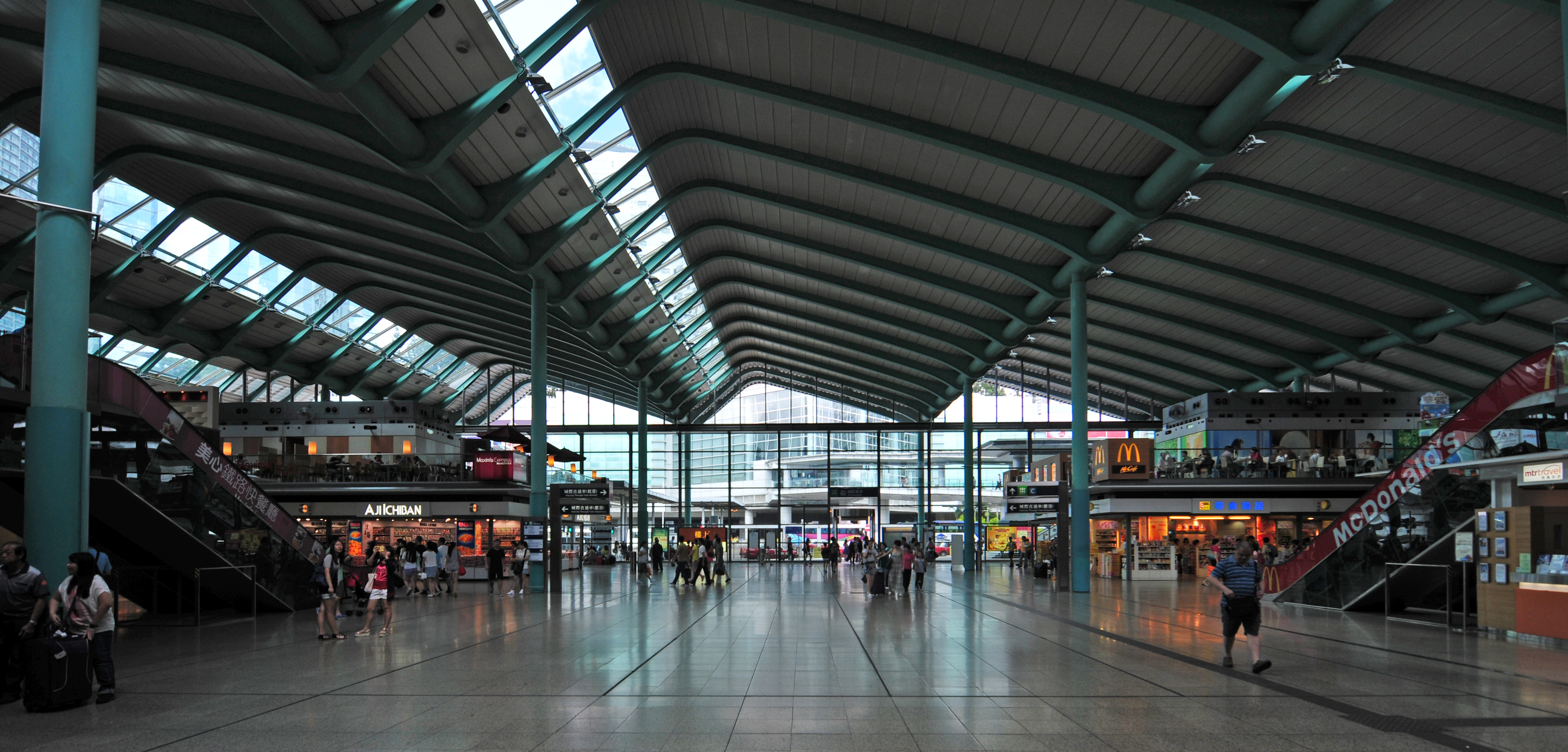 Metro Station Hung Hom in Hong Kong